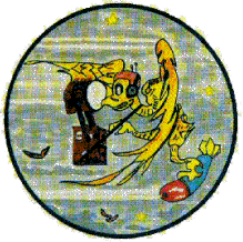 Emblem of the 485th Bombardment Squadron (World War II)